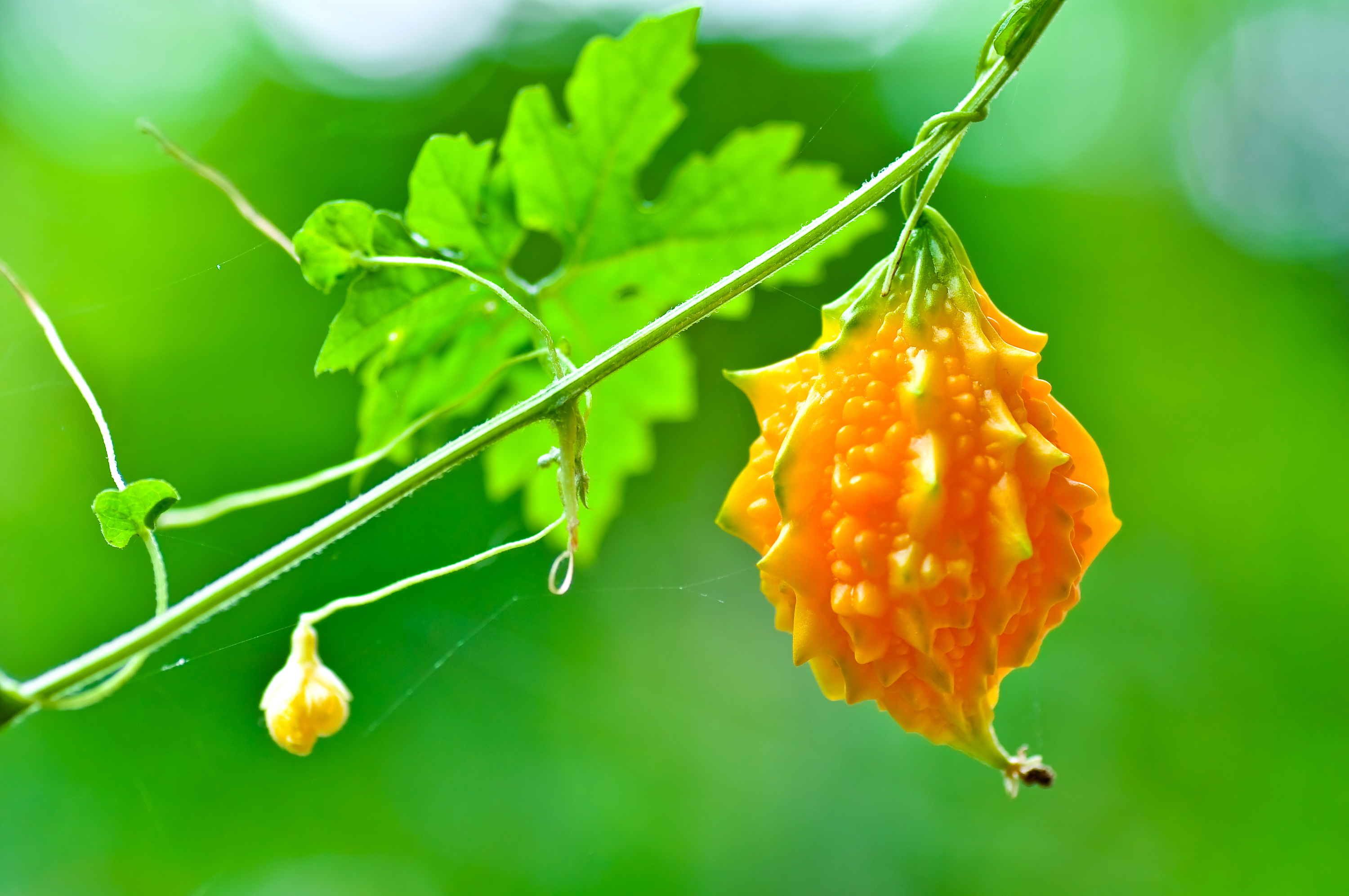 Ripe bitter melon (Momordica charantia)